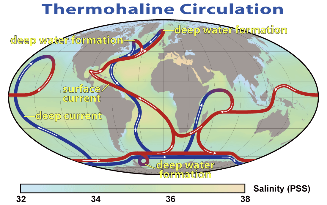 This map shows the pattern of thermohaline circulation also known as "meridional overturning circulation". This collection of currents is responsible for the large-scale exchange of water masses in the ocean, including providing oxygen to the deep ocean. The entire circulation pattern takes ~2000 years.